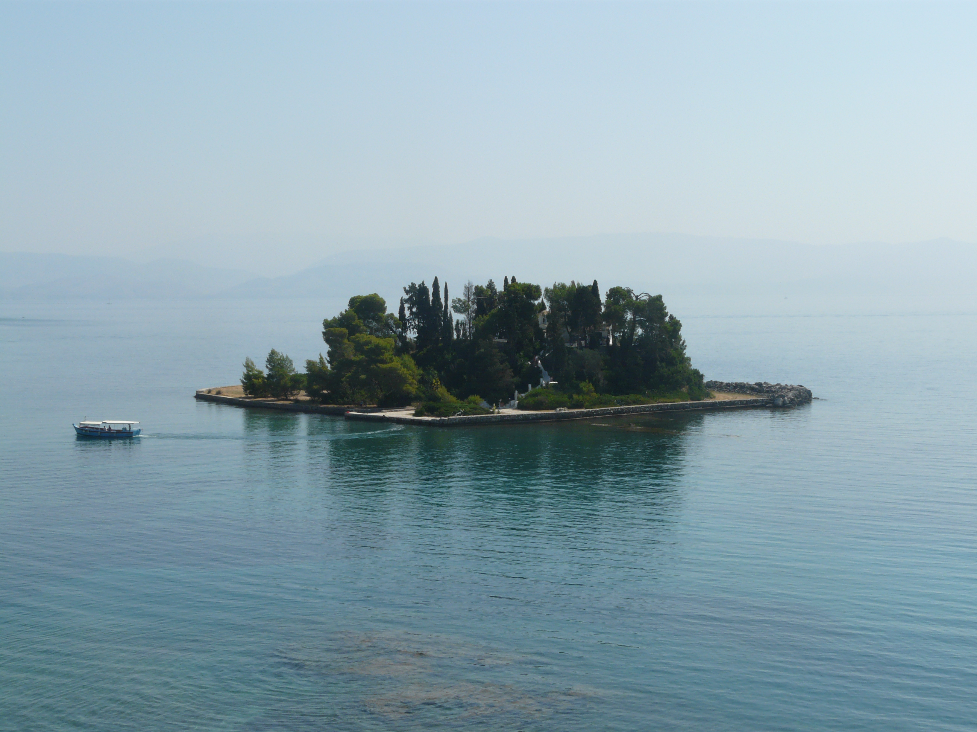 Ποντικονήσι - Islet of Pontikonisi, Corfu, Greece.